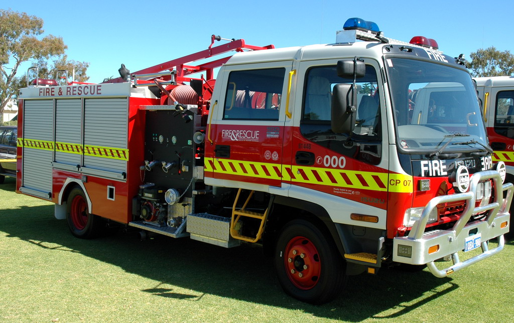 FESA Isuzu country pumper.